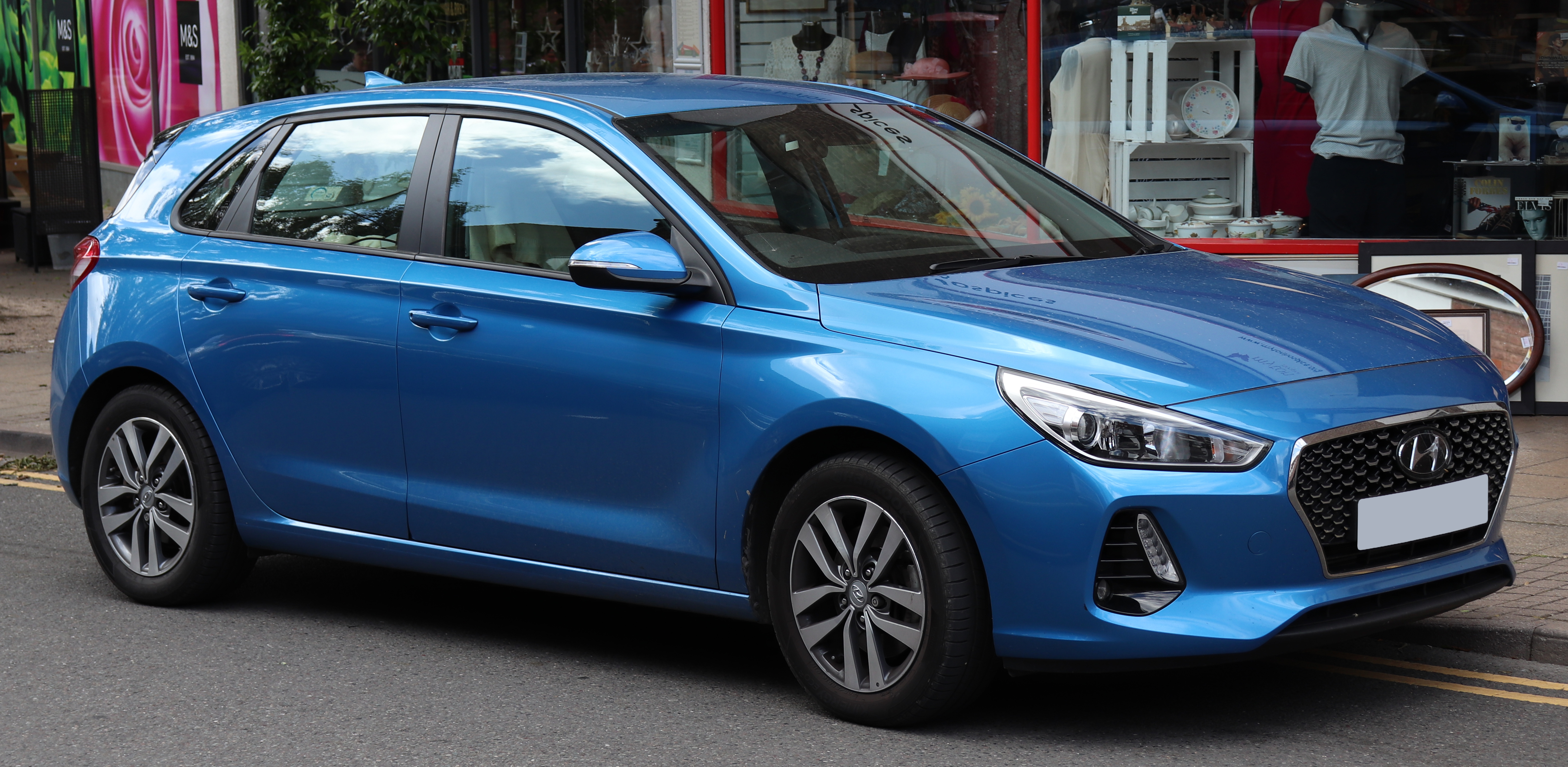 2017 Hyundai i30 SE NAV CRDi 1.6 Front Taken in Warwick